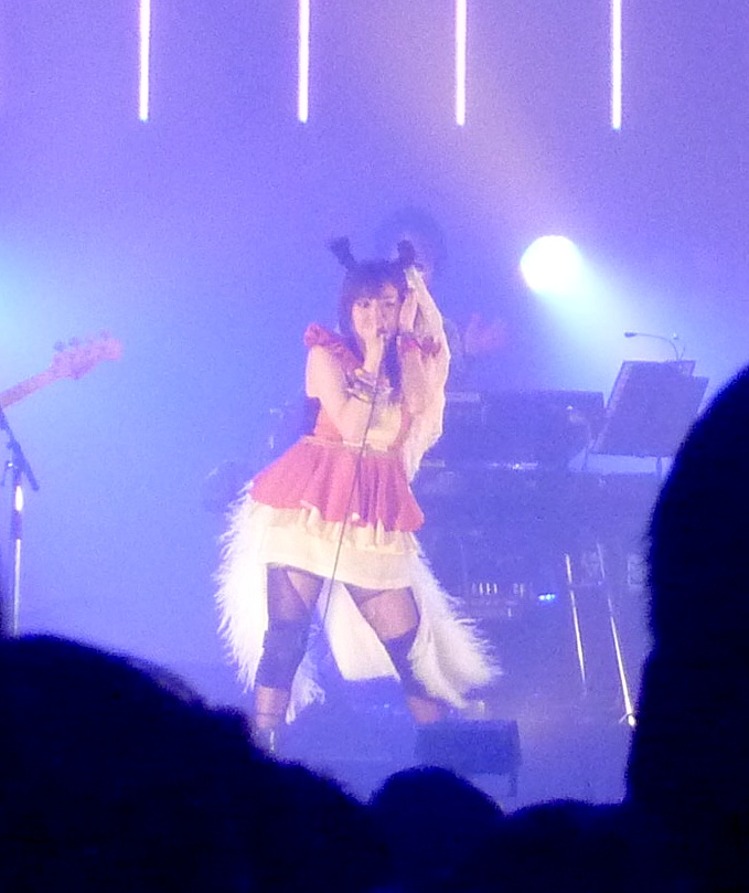 J-pop artist "Chara" (at "Countdown Japan" music festival.)